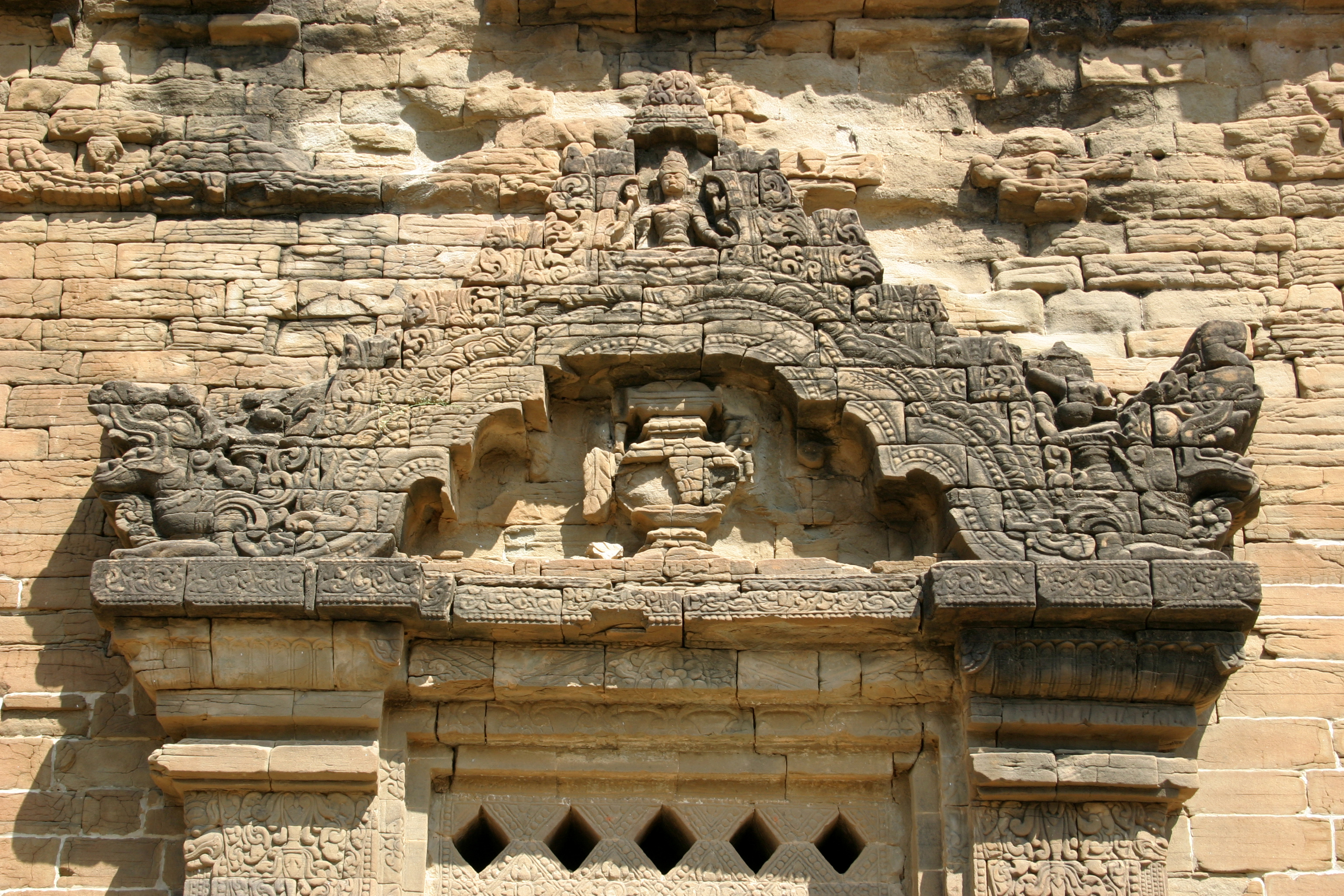 Nanpaya temple, Bagan, Myanmar.